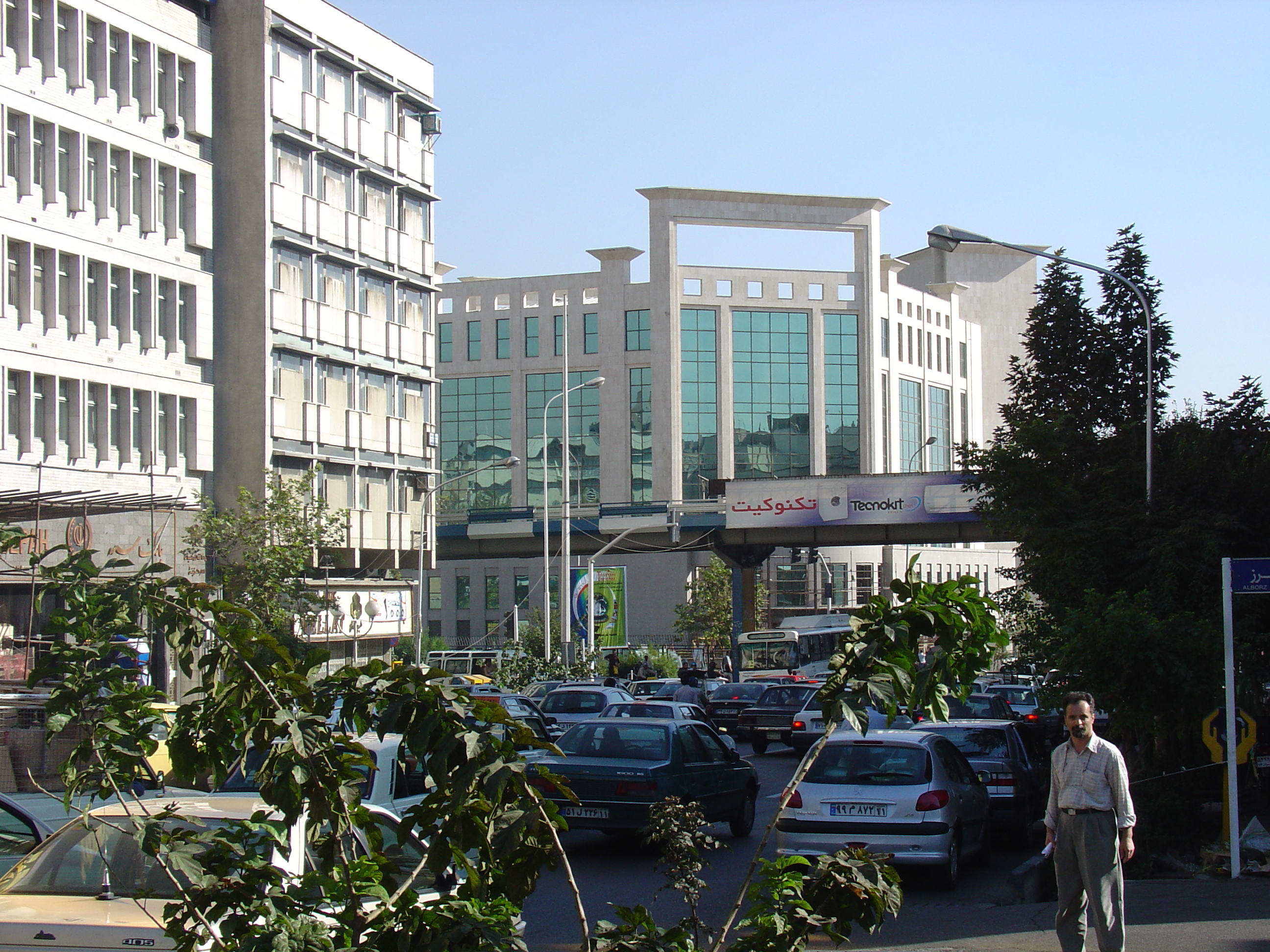 College Bridge of Tehran and Tehran Metro Headquarter in background, Tehran, Iran